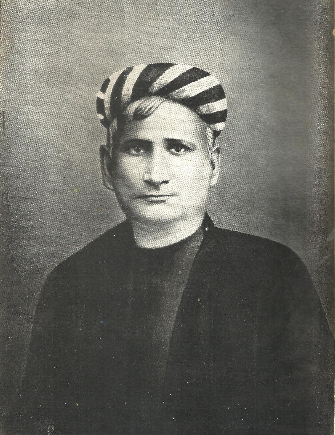 Portrait of Bankim Chandra Chatterjee (Bankimchandra Chattopadhyay)